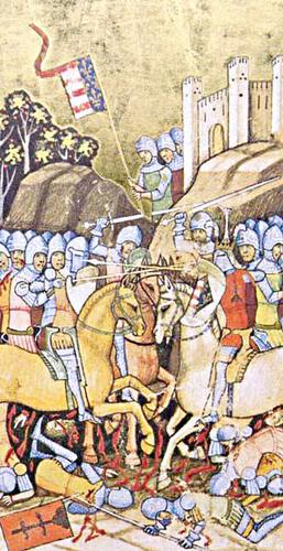 Illustration of a chronic from the XIV century